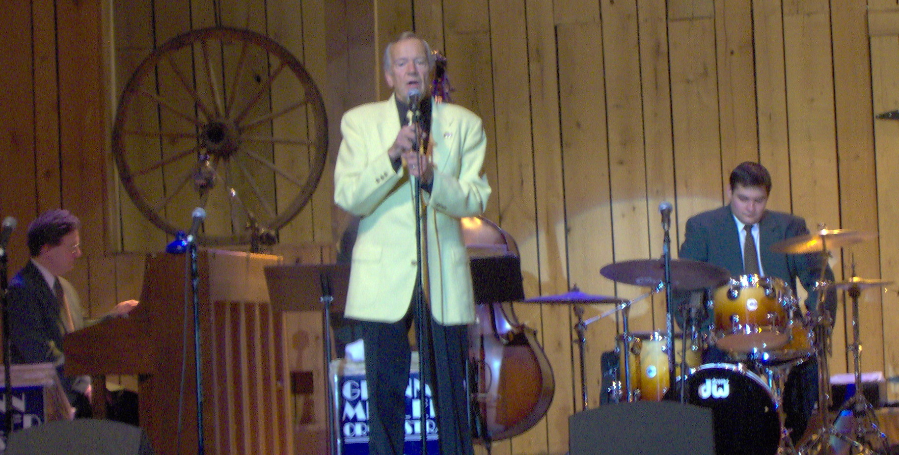 Larry O'Brien music director of Glenn Miller Orchestra performing at Renfro Valley, Kentucky.